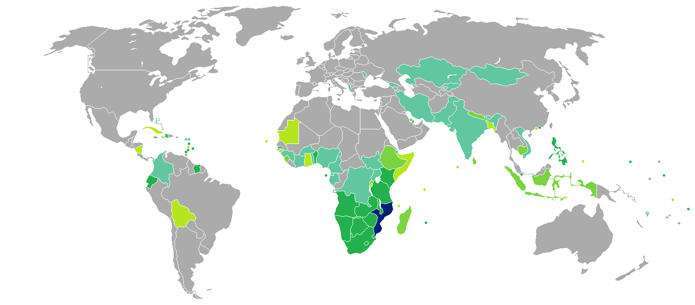 Visa requirements for Mozambican citizens Mozambique Visa free access Visa on arrival eVisa Visa required